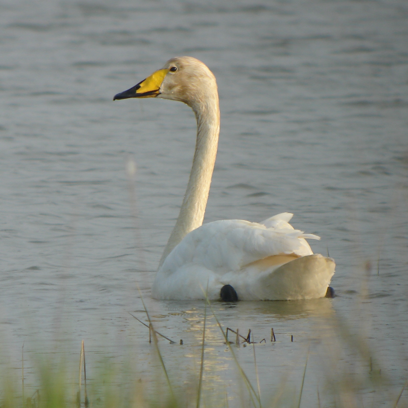 Whooper Swan (Cygnus cygnus) - Photographed in the Island of Oleron, France